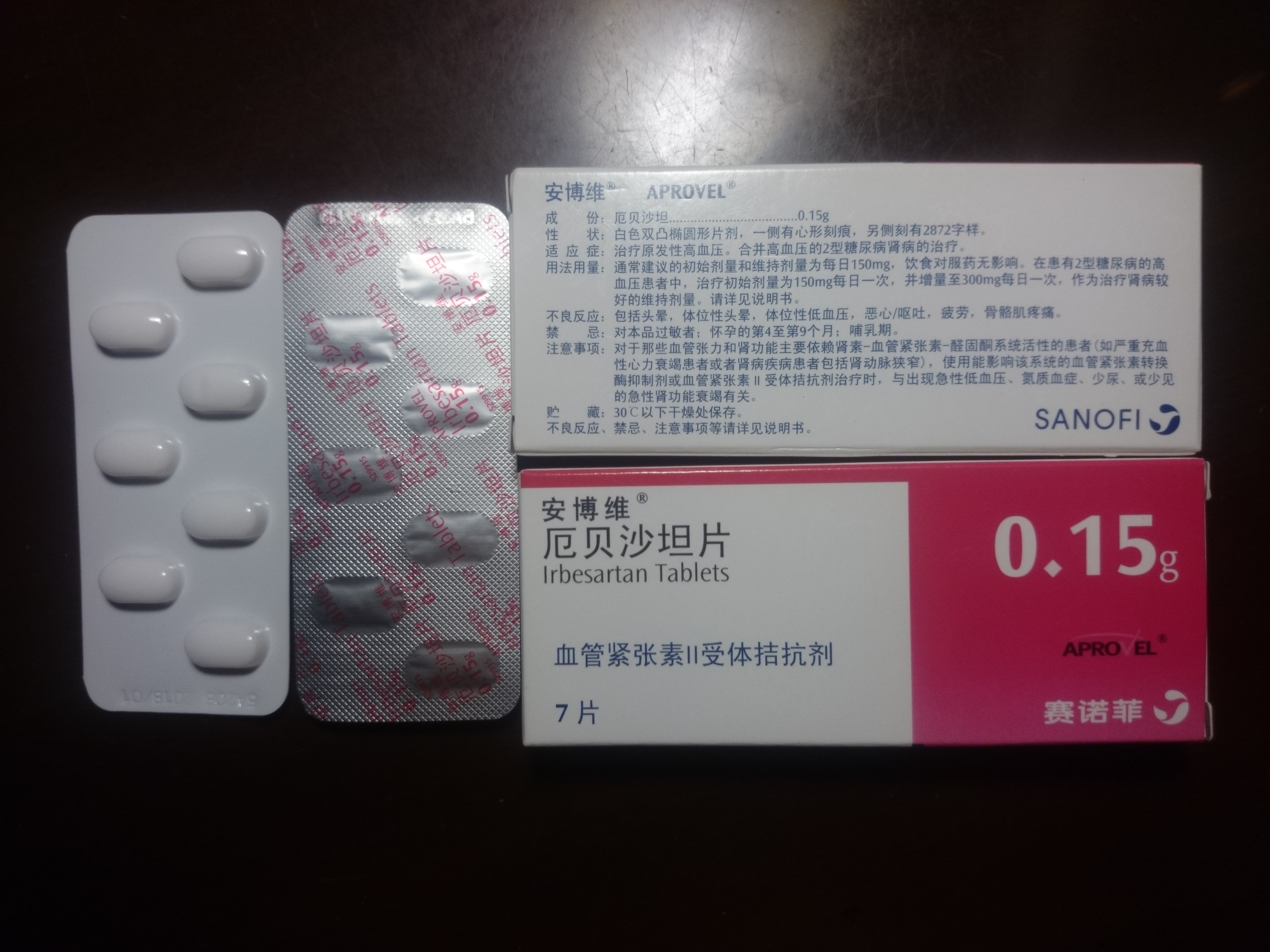 Aprovel® Irbesartan tablets sales in Mainland China. Specification is 150mg * 7 tablets.